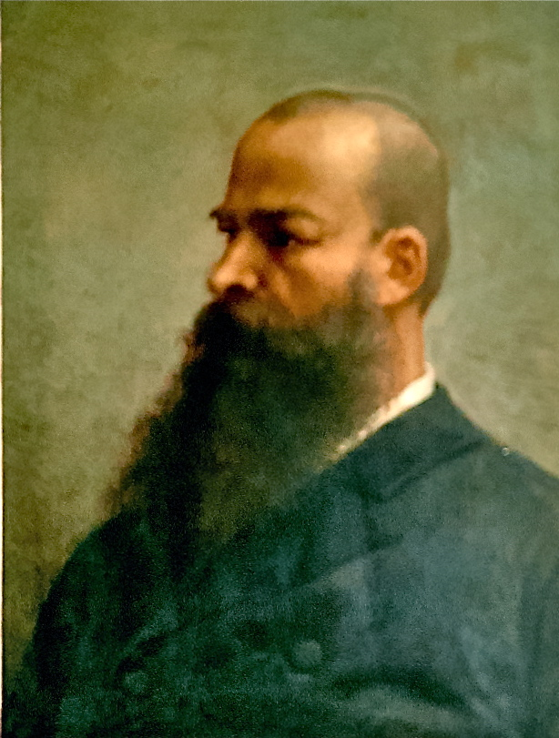 Portrait of her brother Theodore by Maria Szymanowska c. 1890